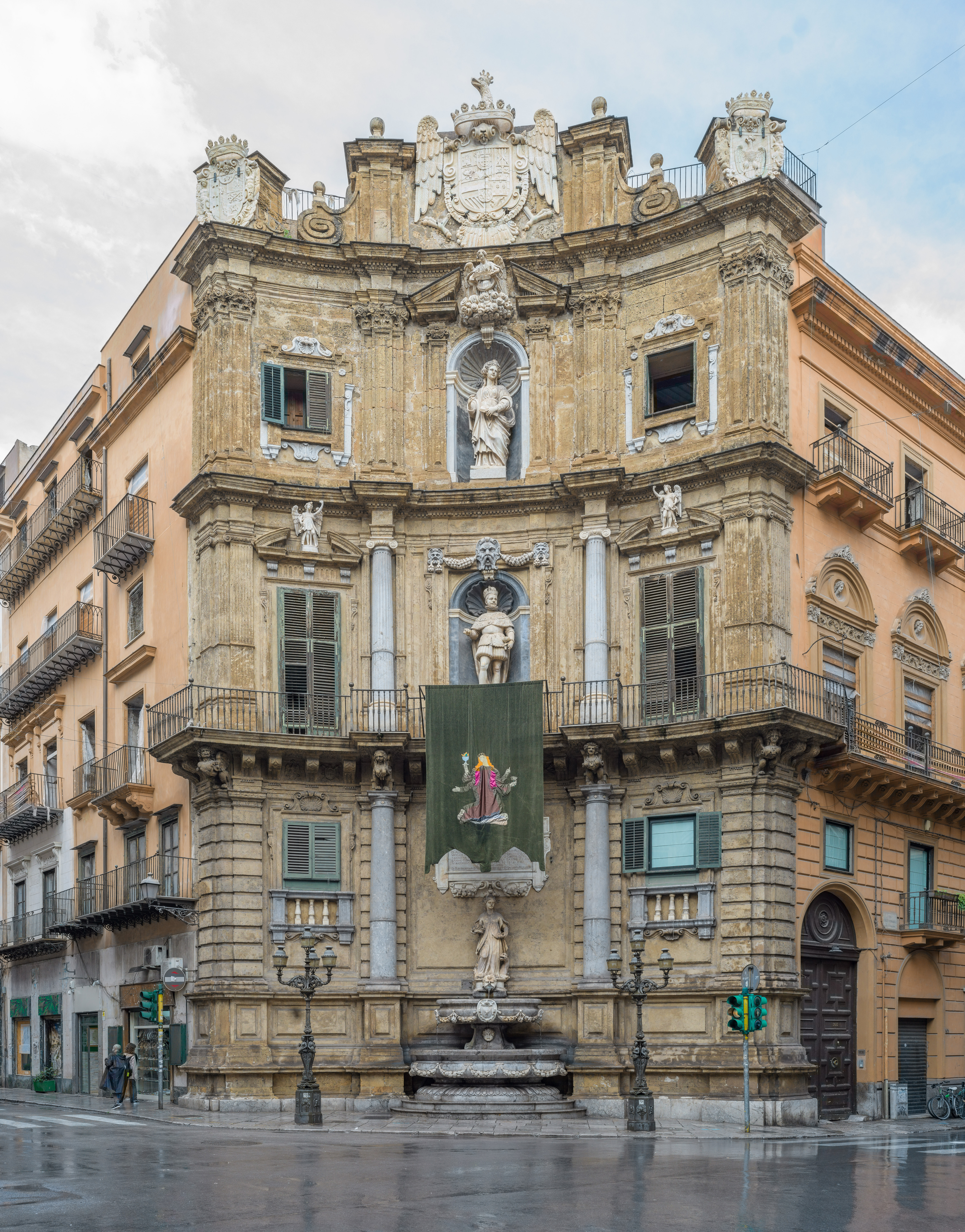 Palace on the NE face of the Quattro Canti square in Palermo.